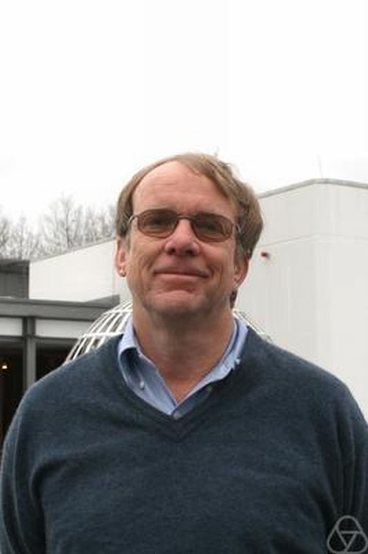 Andreas Griewank, Oberwolfach 2012